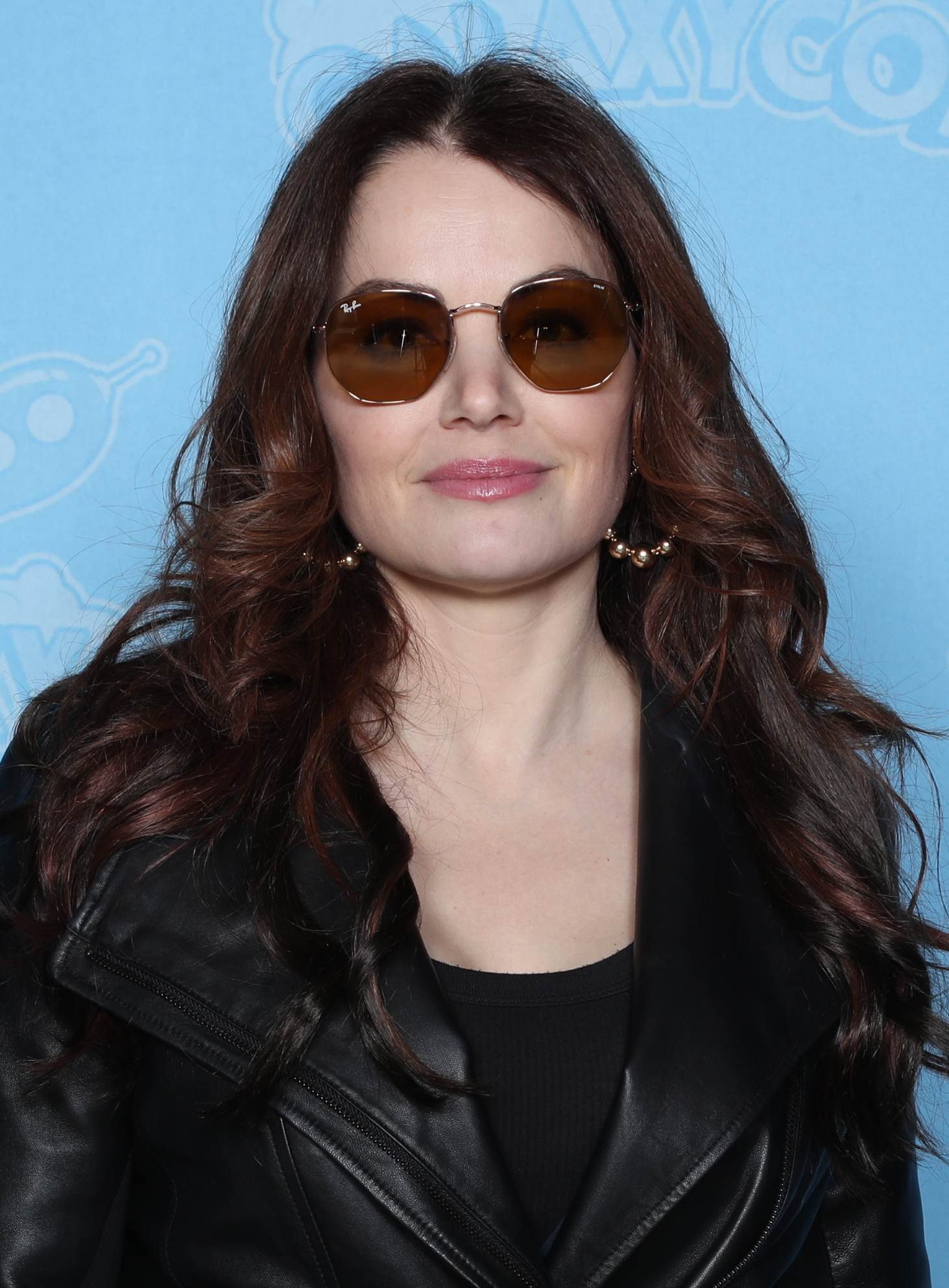 Erica Durance at GalaxyCon Richmond in 2020